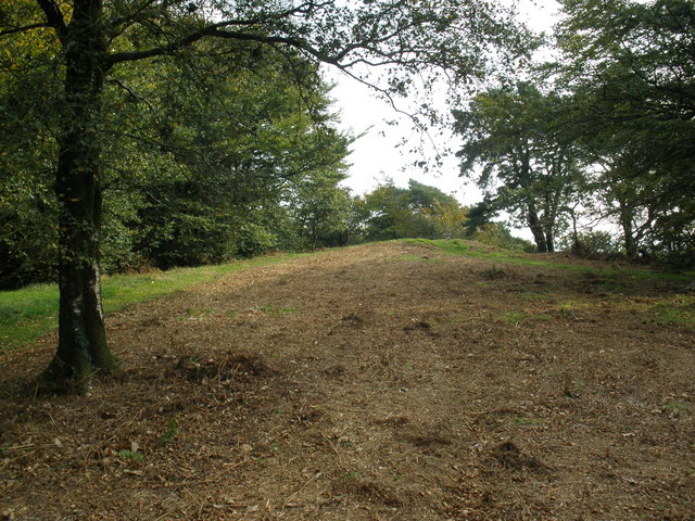 Summit of Lewesdon Hill At 915 feet, this hilltop is the highest point in Dorset.